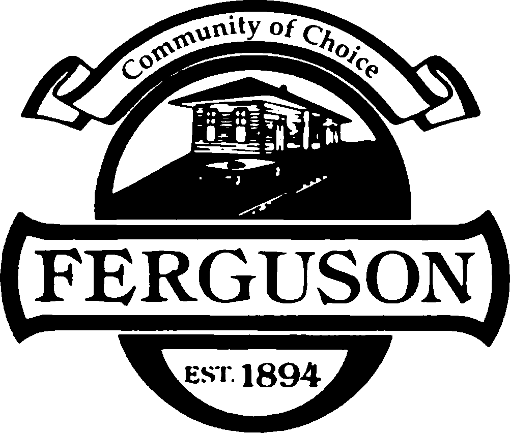 The official city seal of Ferguson, Missouri, also known as a "corporate seal" in the 1954 city charter.